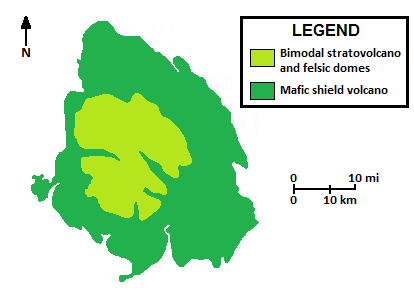 Geologic map of Level Mountain showing the basal shield volcano and the stratovolcano cap